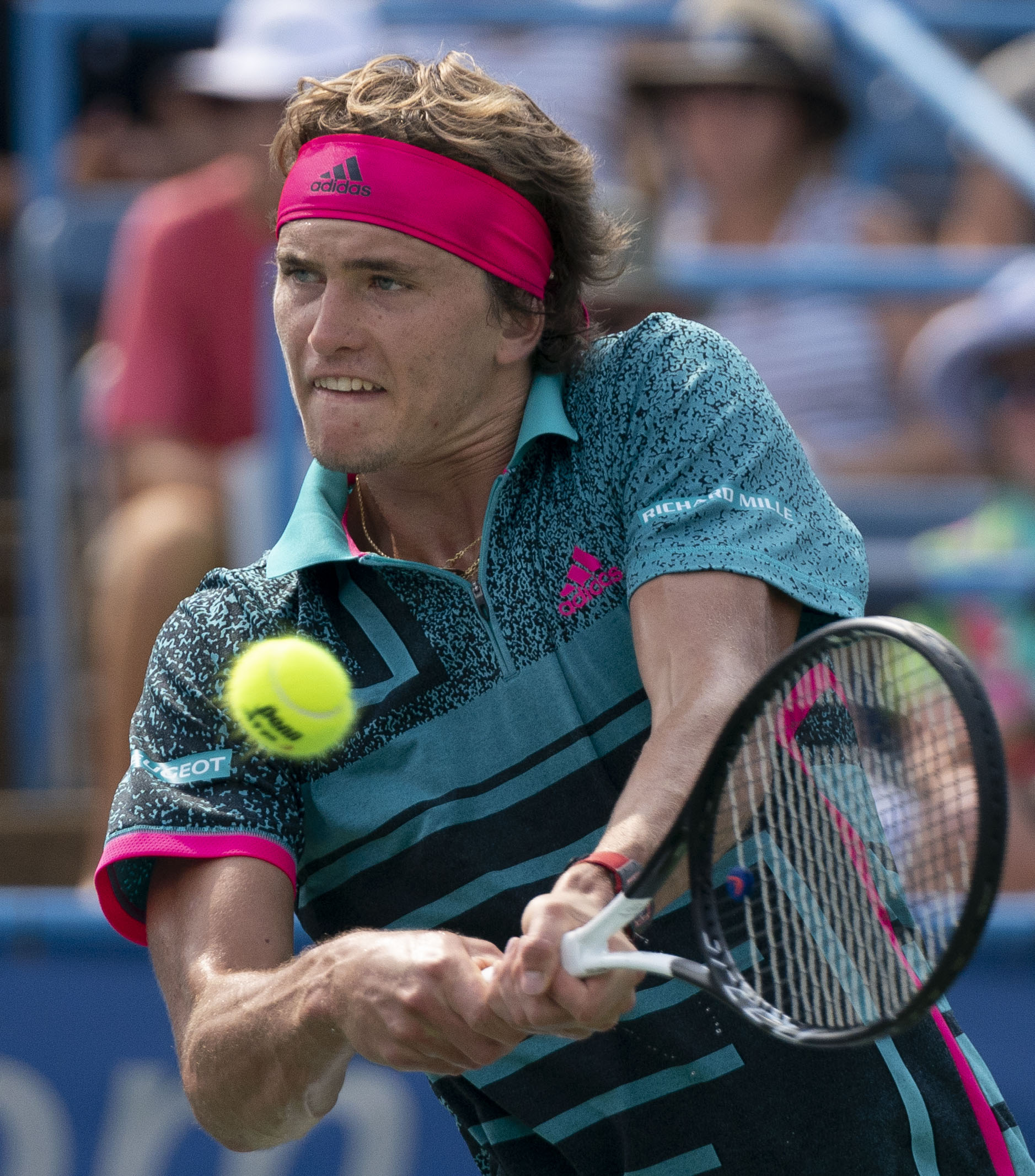 2018 Citi Open Tennis Finals